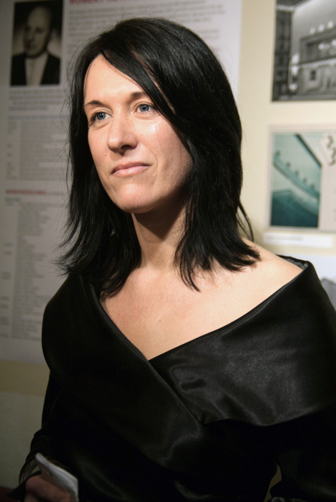 Elisabeth Scharang at the premiere of the movie Vielleicht in einem anderen Leben at the Gartenbaukino in Vienna.